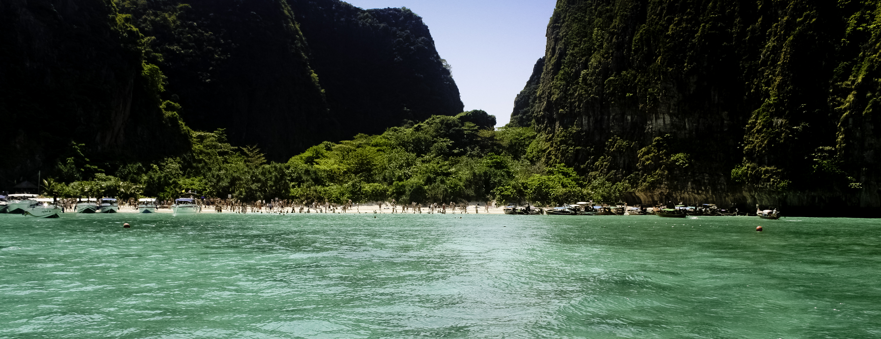 Maya Bay, Krabi, Thailand (Panorama)